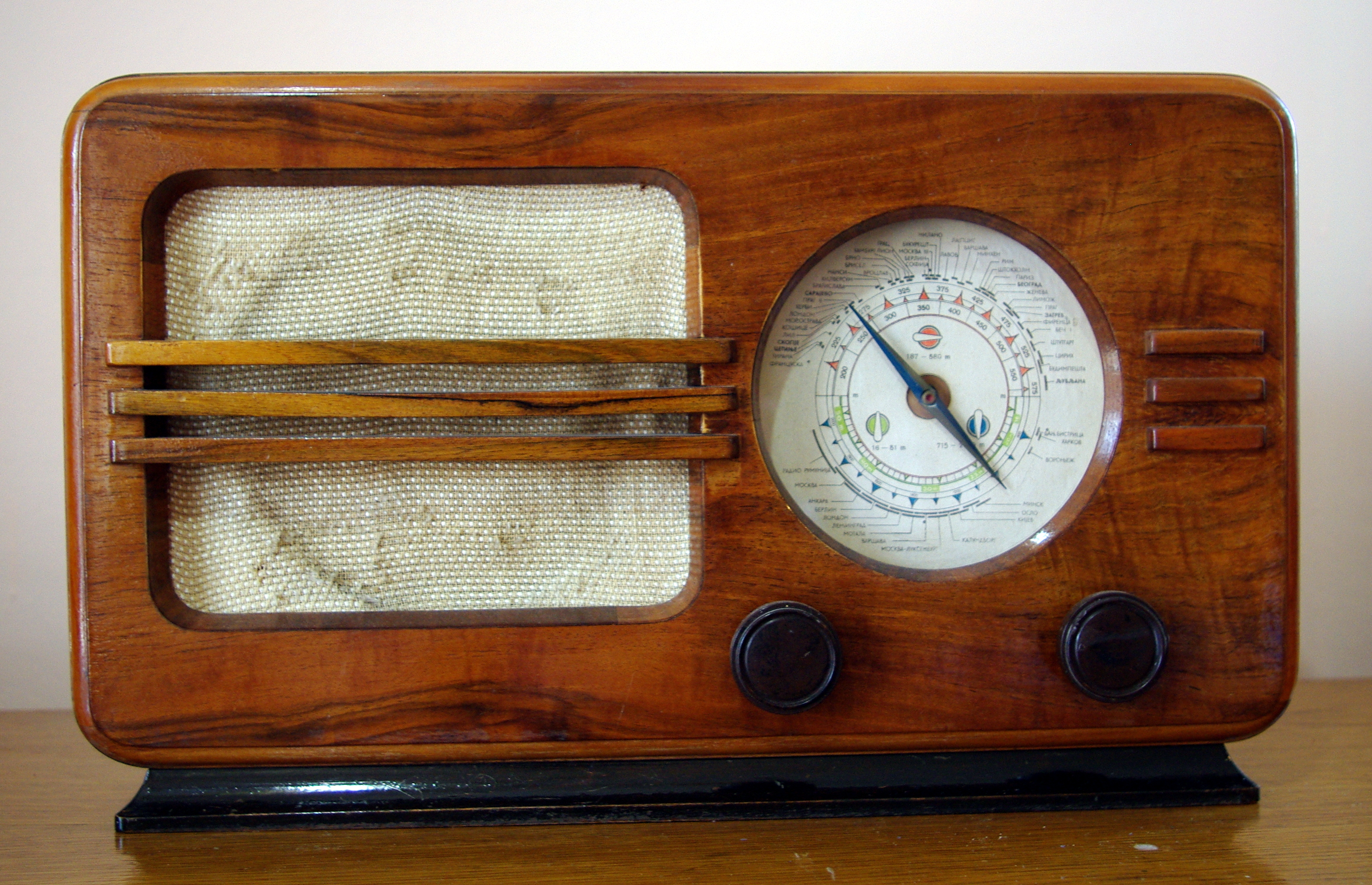 Radio Industrija Nikola Tesla, model: Kosmaj 49.